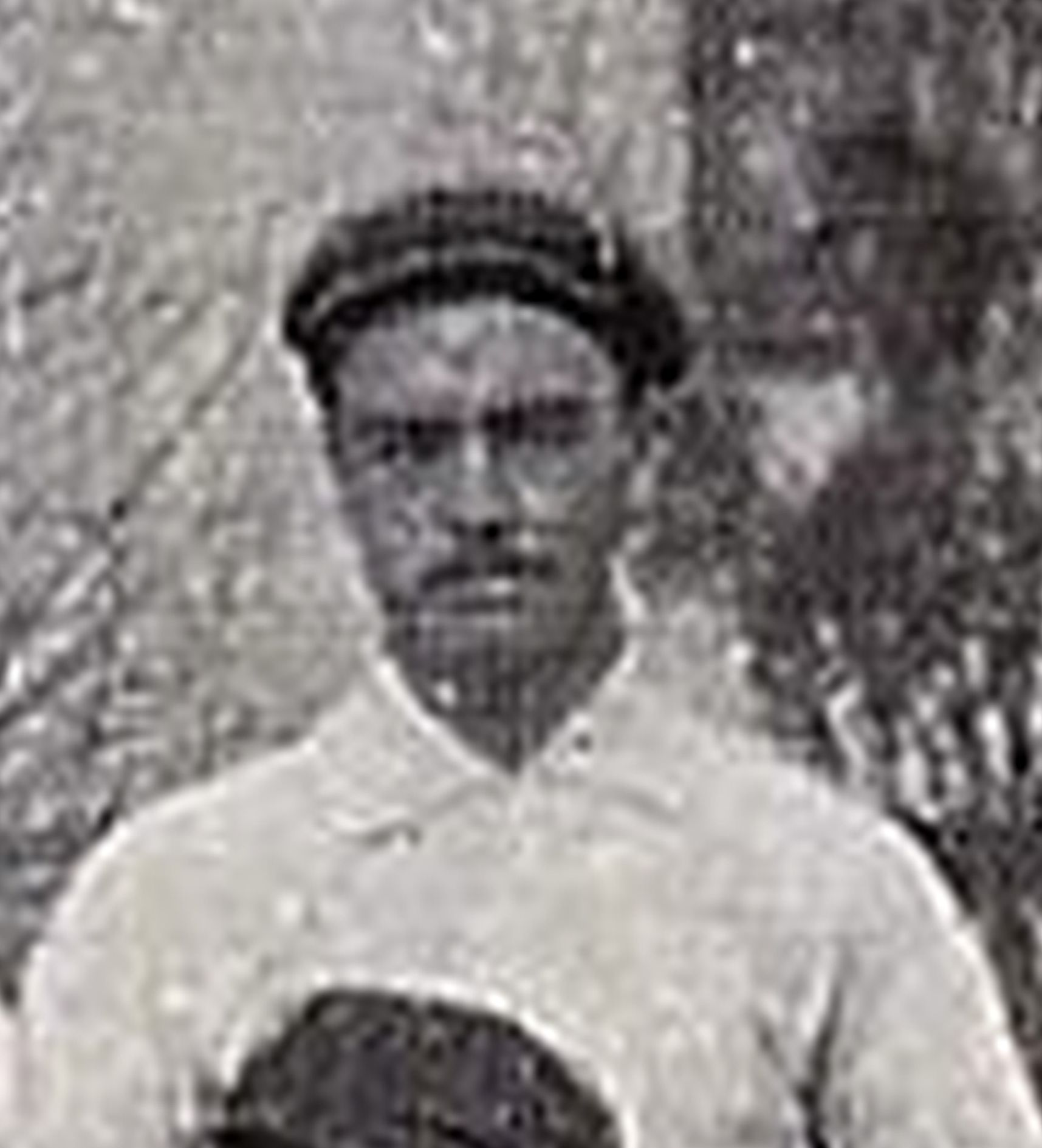 cropped from File:Servette F.C. 1900-01 - II Mannschaft.jpg